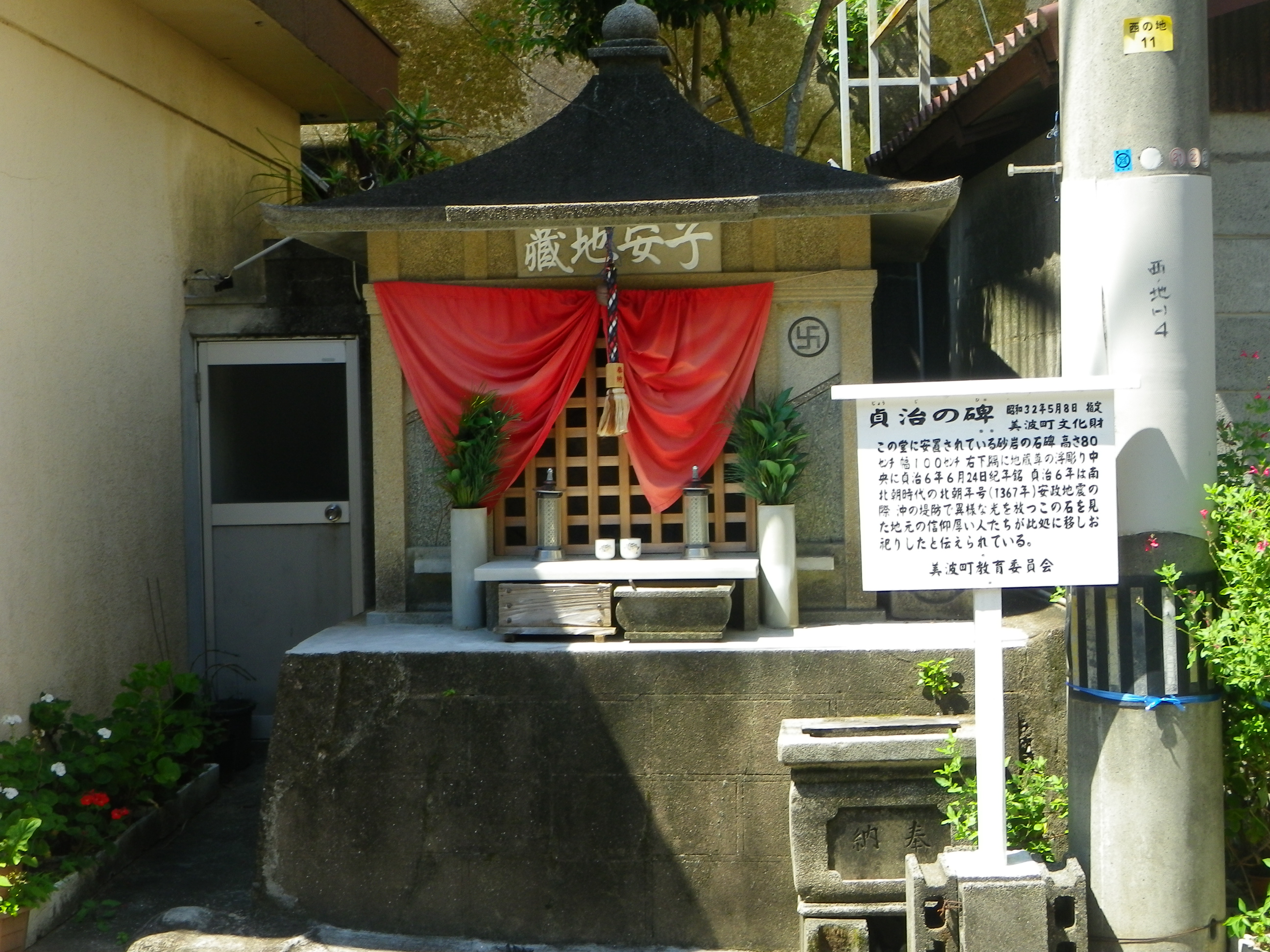 Yuki joji tsunami monument